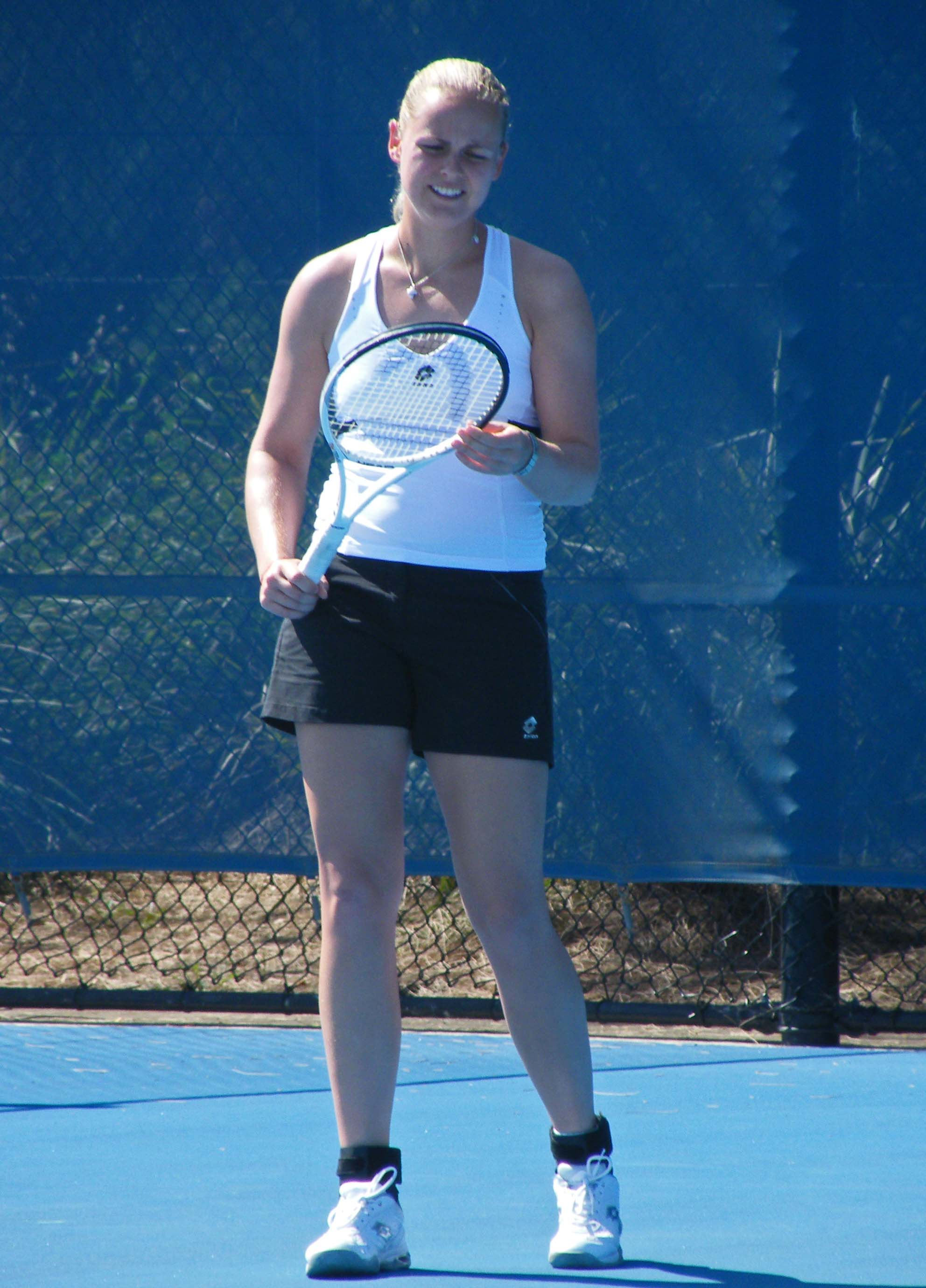 Anna Lena Groenfeld at the 2010 Sydney Medibank International.